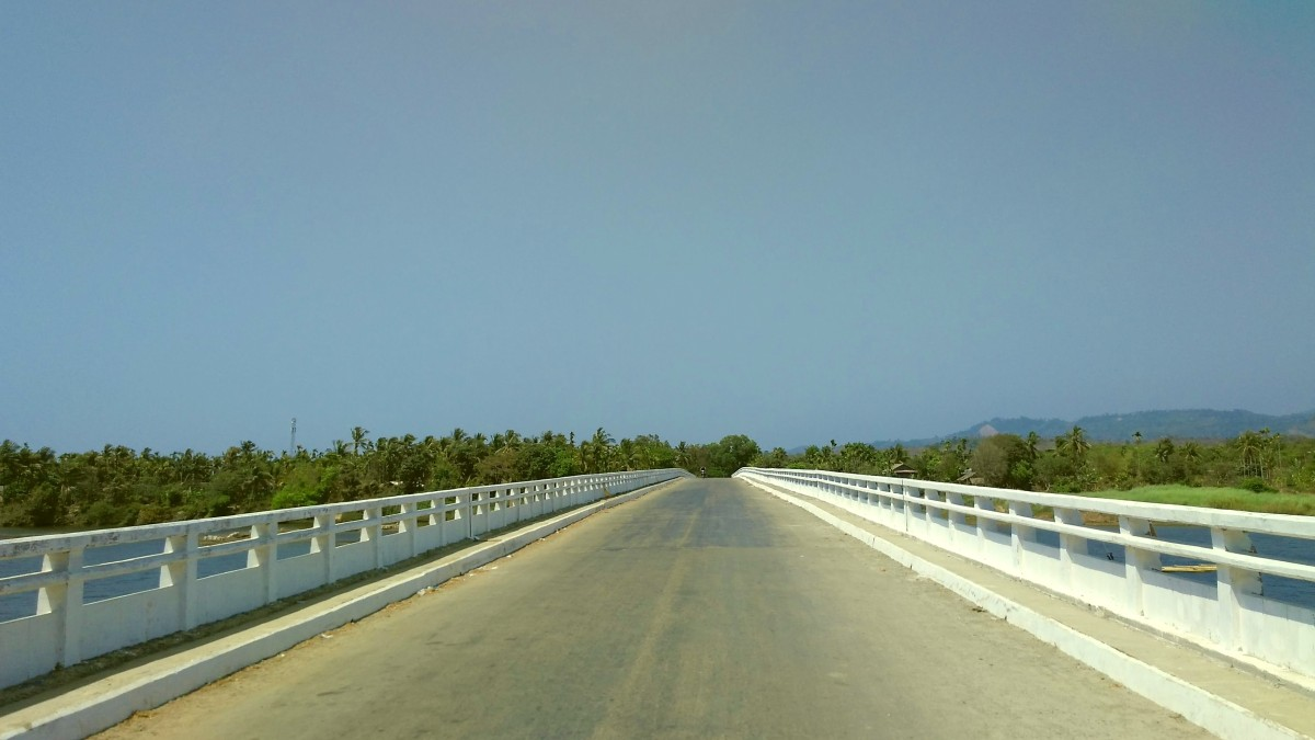 Kyeintali River Bridge was built across the Kyeintali River since 1993.